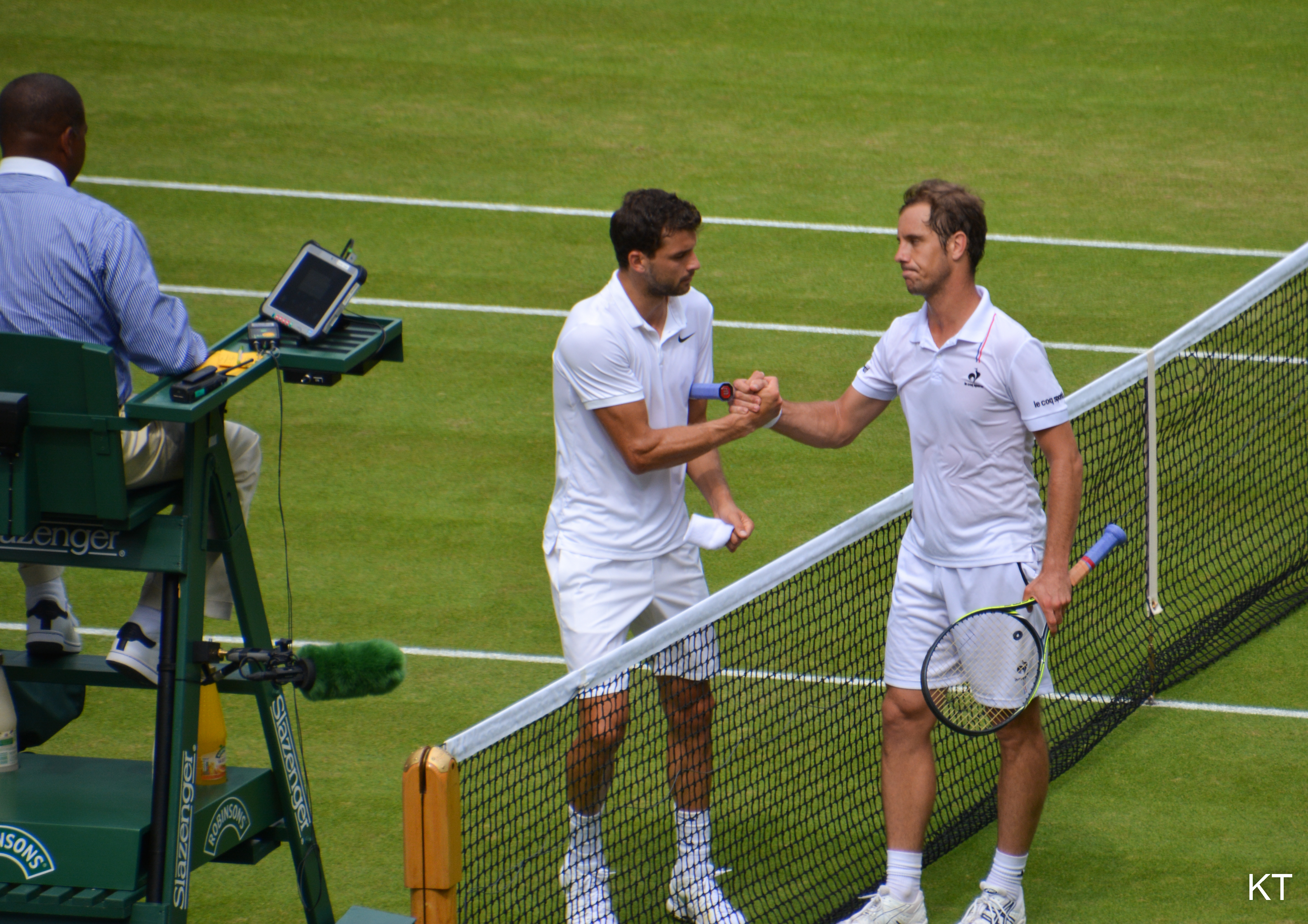 Richard Gasquet beat Grigor Dimitrov 6-3, 6-4, 6-4 on Centre Court. Day 5 of Wimbledon 2015.